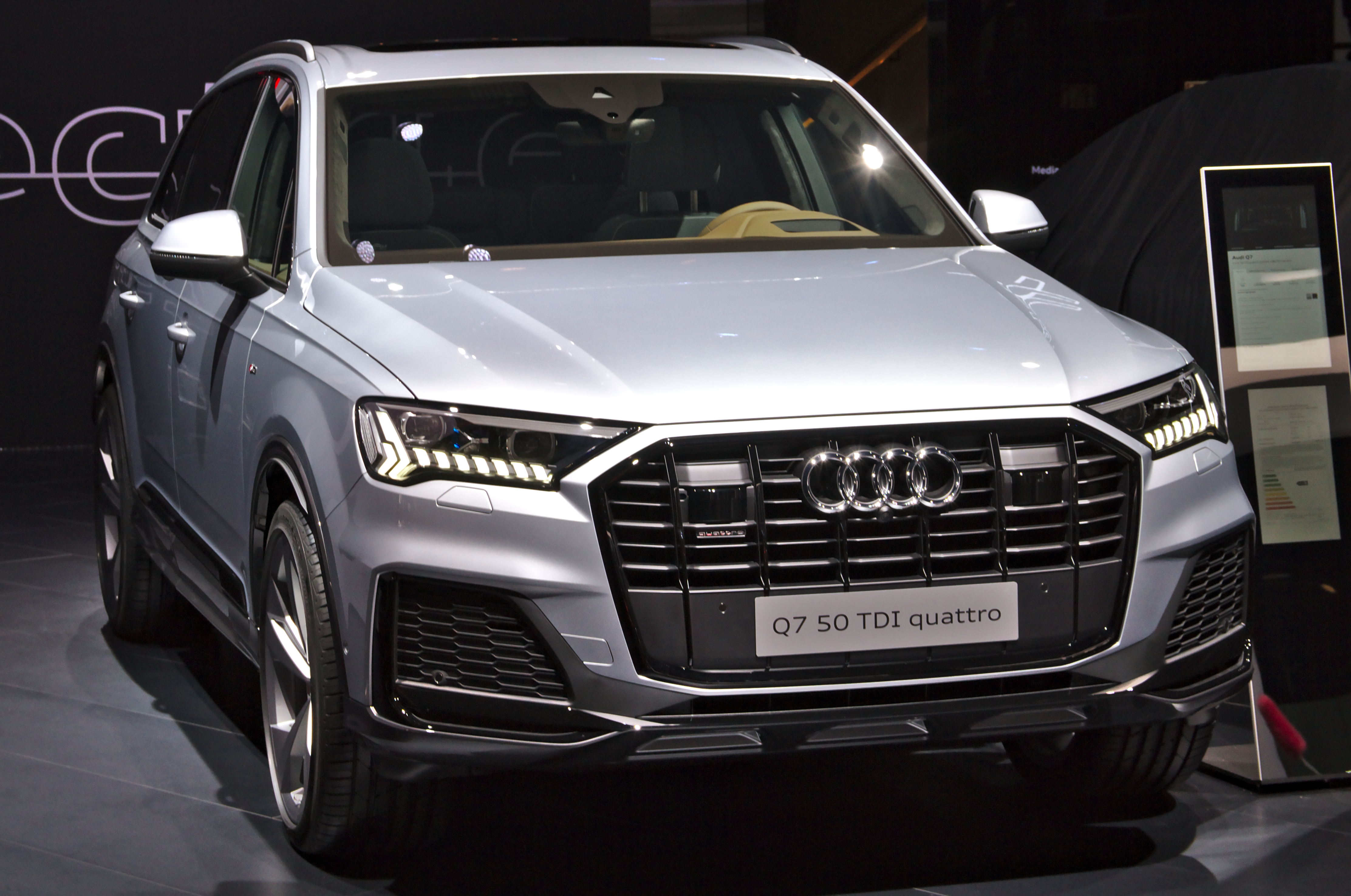 Audi_Q7_(4M) at IAA 2019